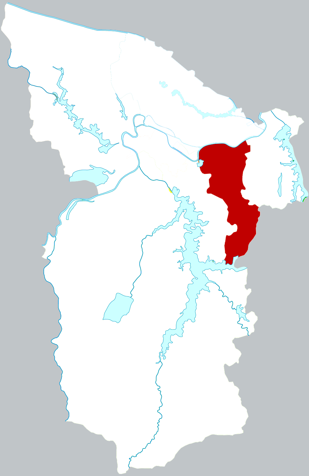 Location of Tianjiaan district in Huainan city, China